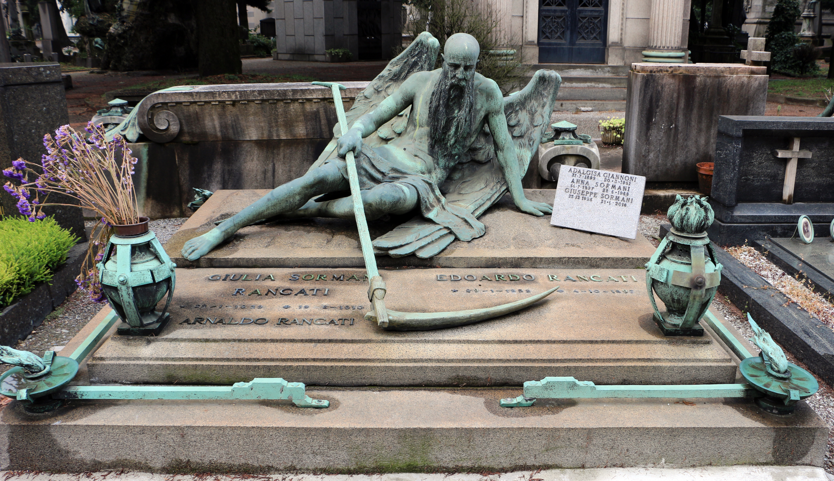 Cimitero Monumentale (Milan)